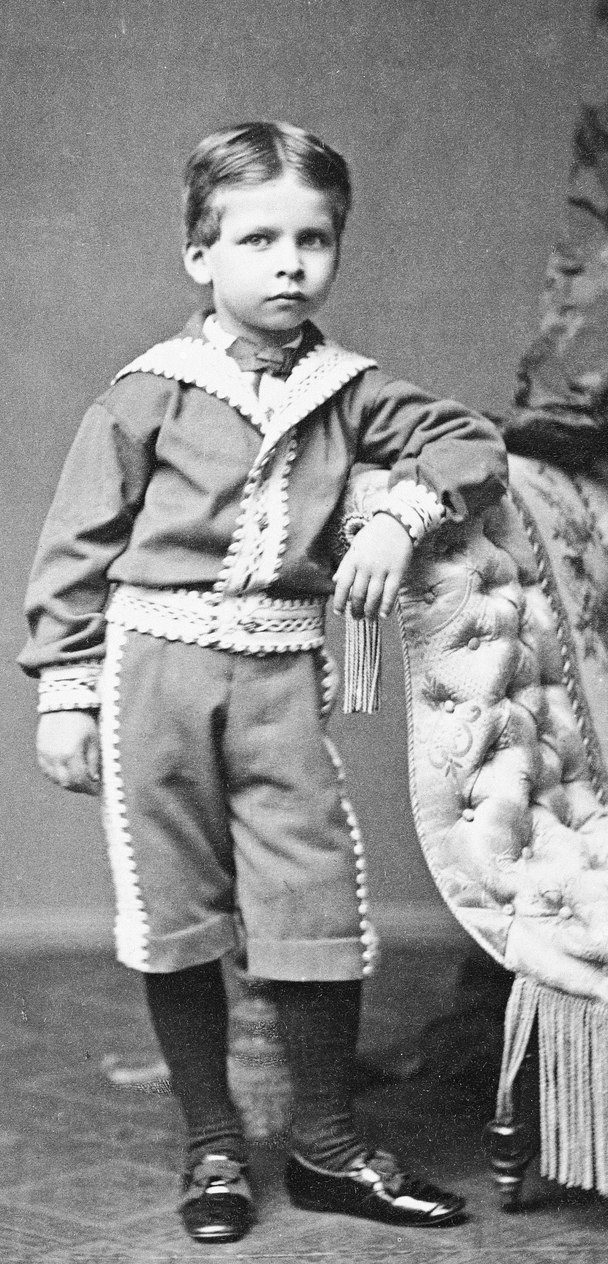 The young Prince Waldemar of Prussia